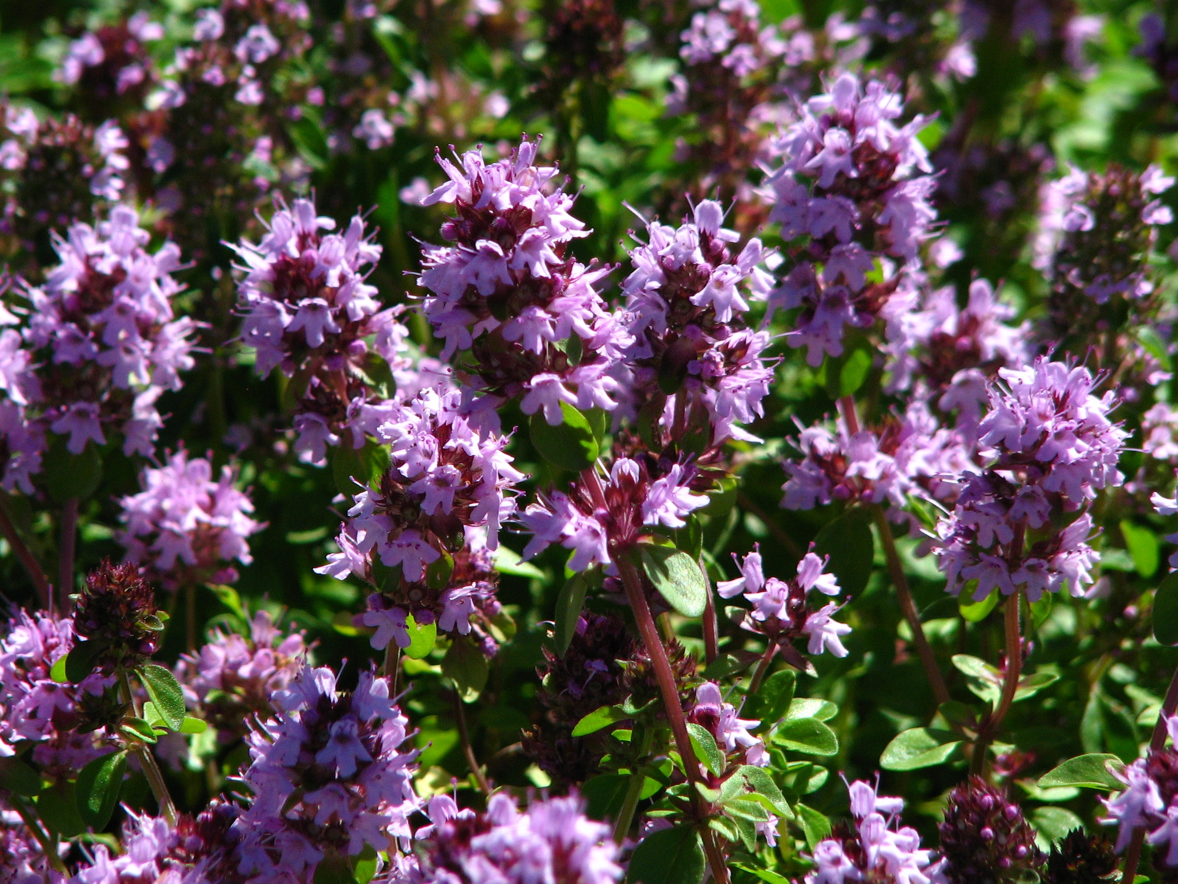 Thymus × citriodorus. From the collection of the Main Botanical Garden of Academy of Sciences in Moscow (perennials plot).